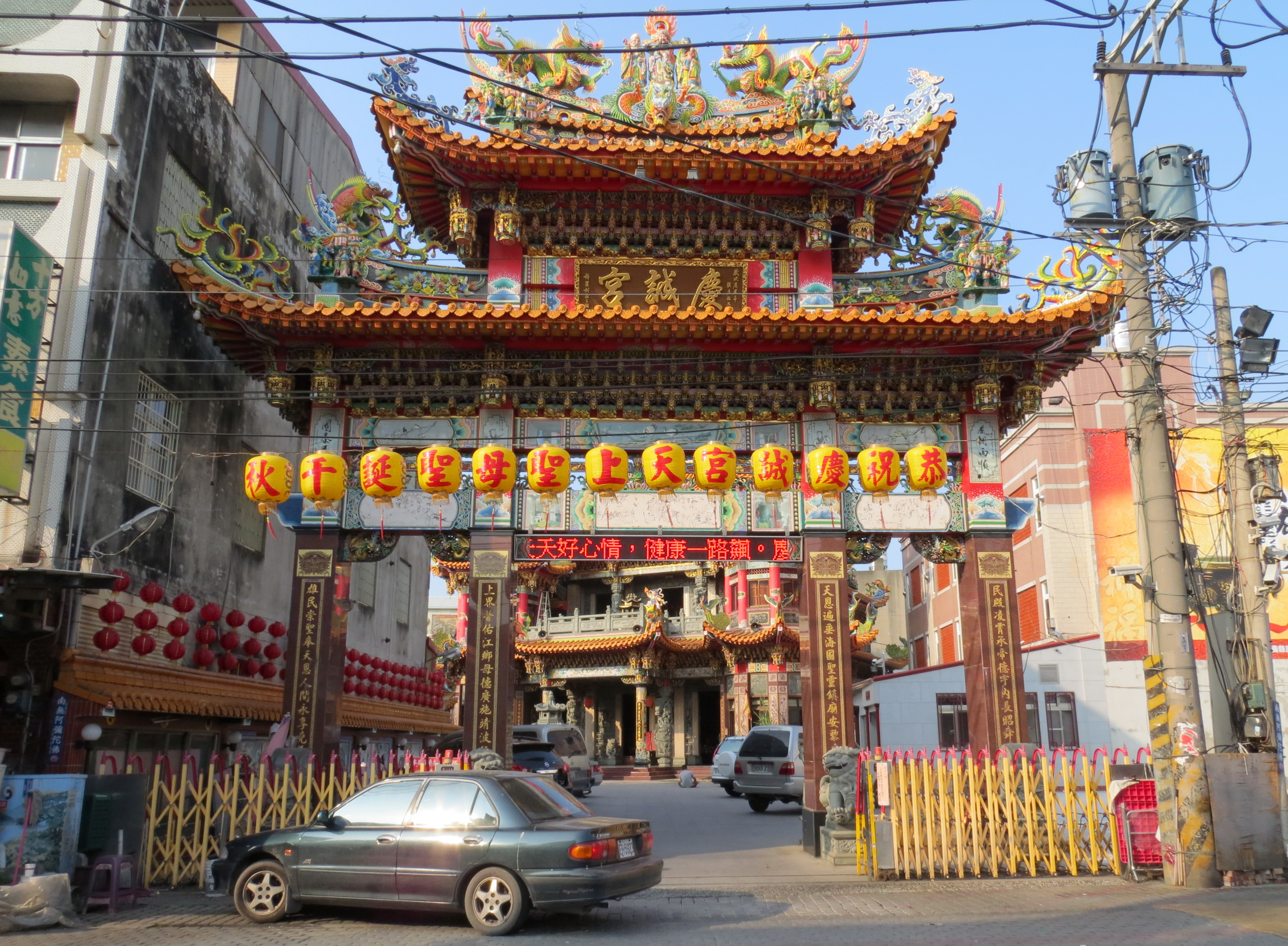 The arch (pailou) in front of the Qing Cheng Temple in Minxiong, Chiayi, Taiwan.